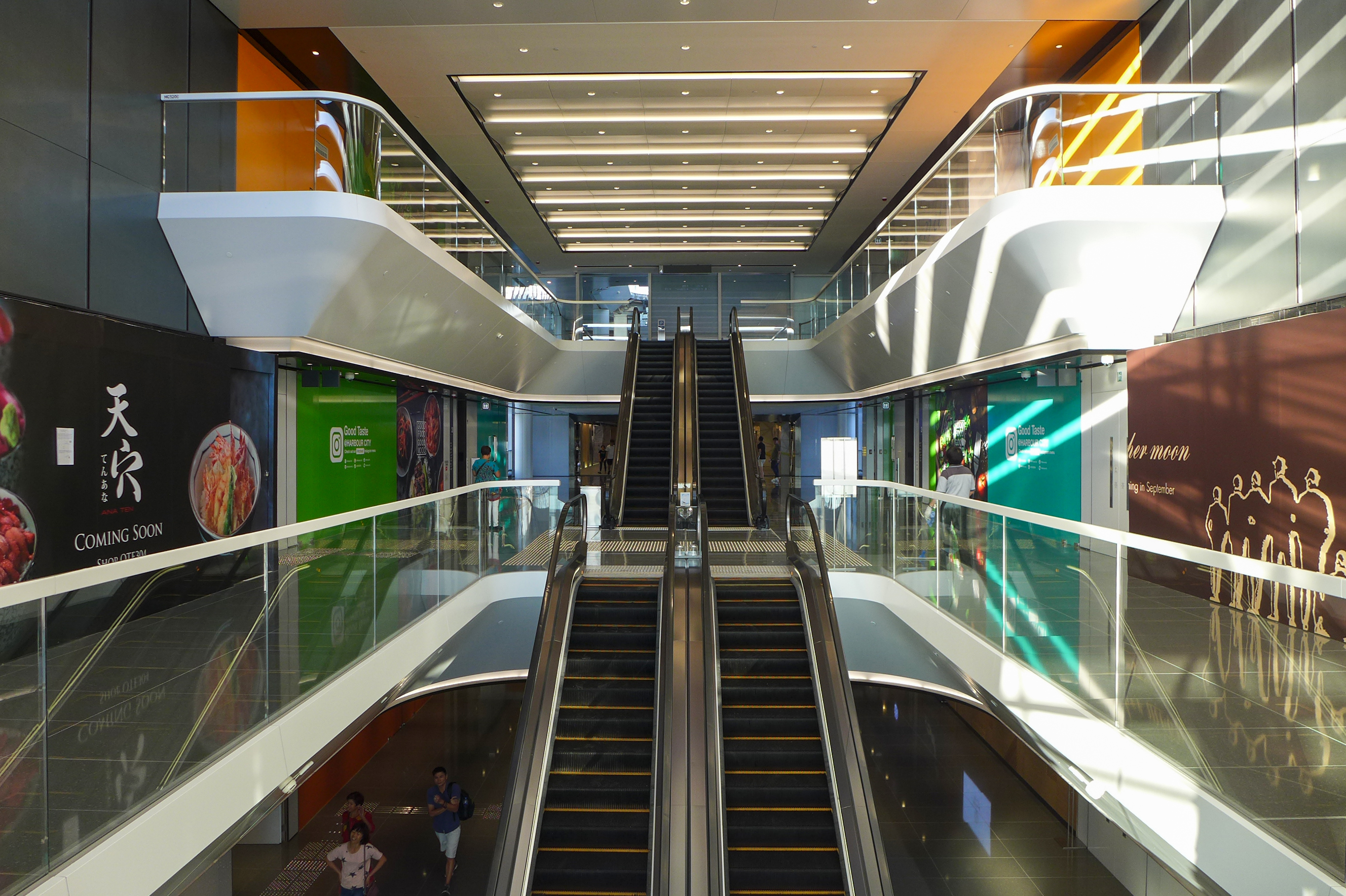 Ocean Terminal Extension Interior